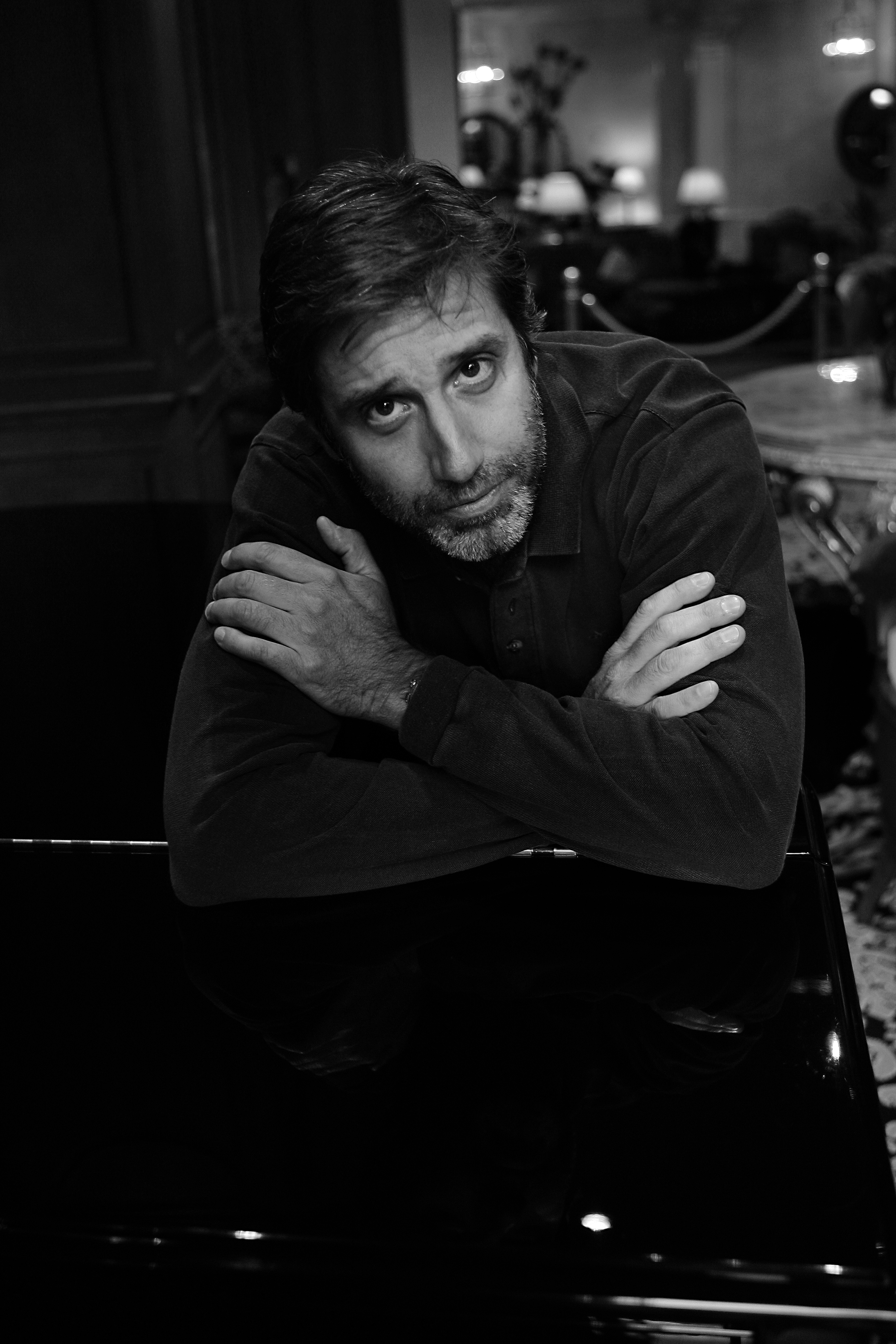 emilio aragón, portrait